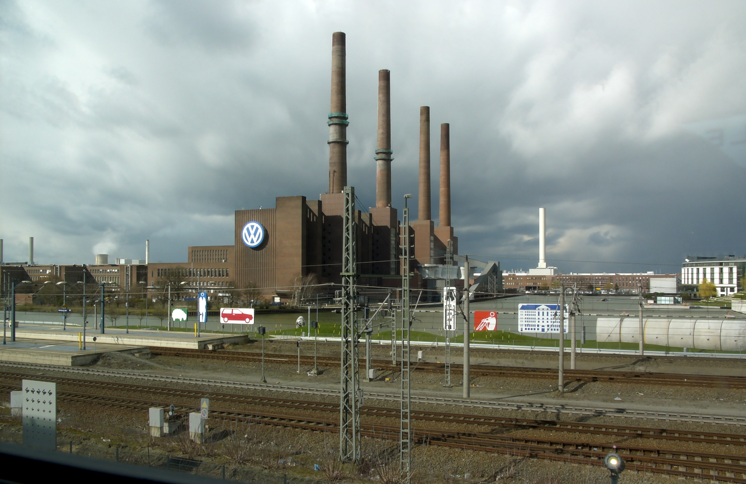 Old main building of car manufacterer VW (Volkswagen)